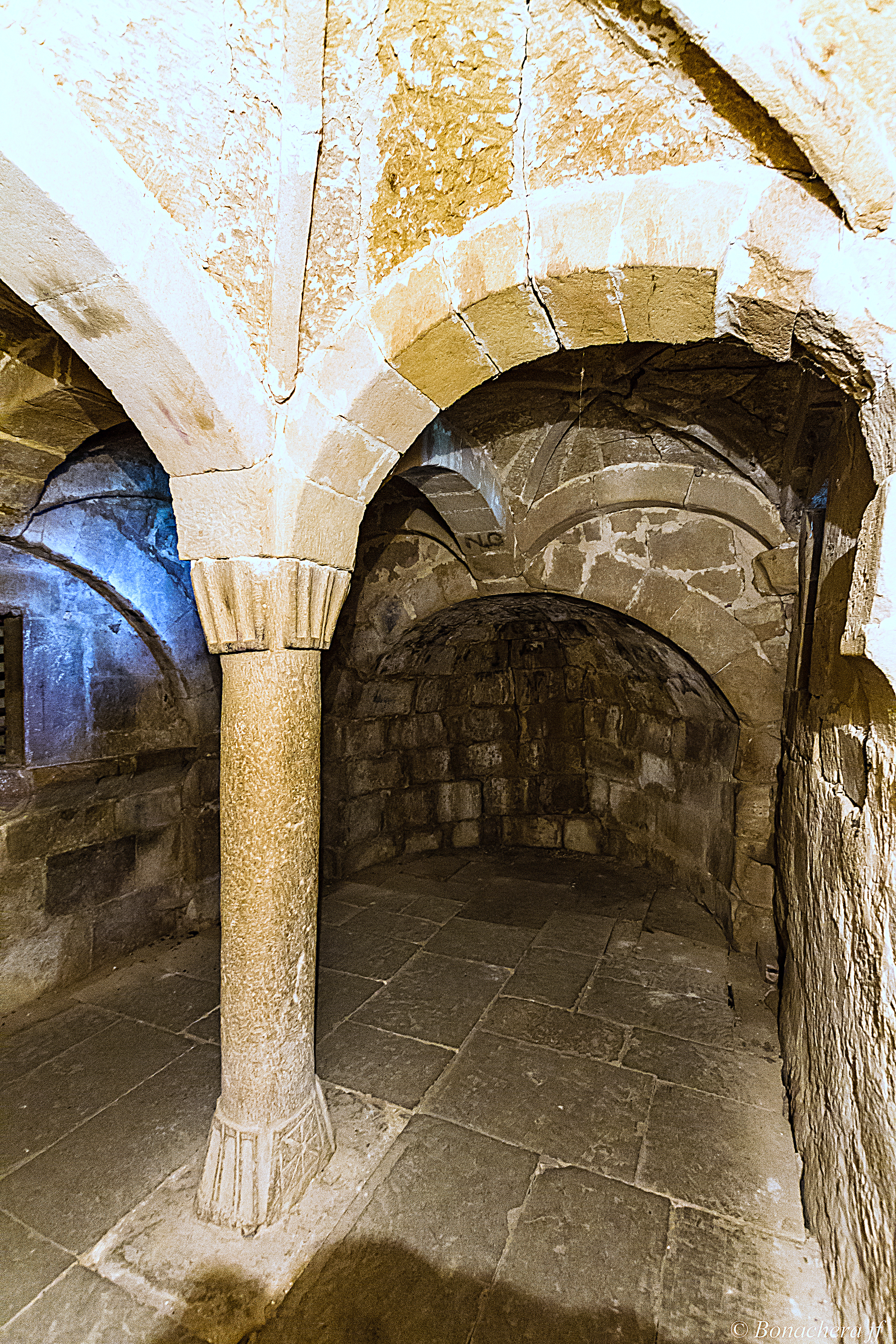 Interieur de l'église de la pieve di Corsignano: dans la crypte